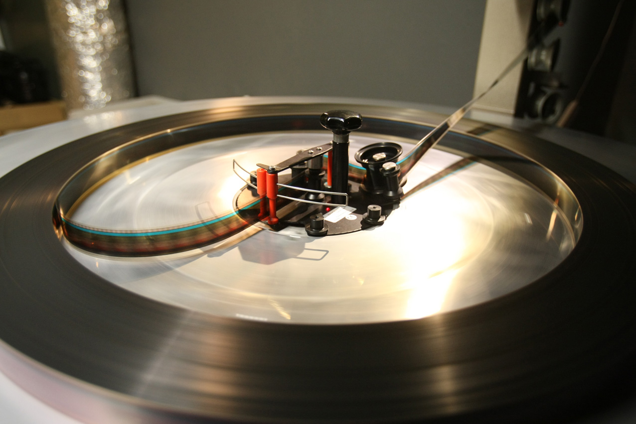 Non-rewind mechanism at Royal, Malmo - Sweden